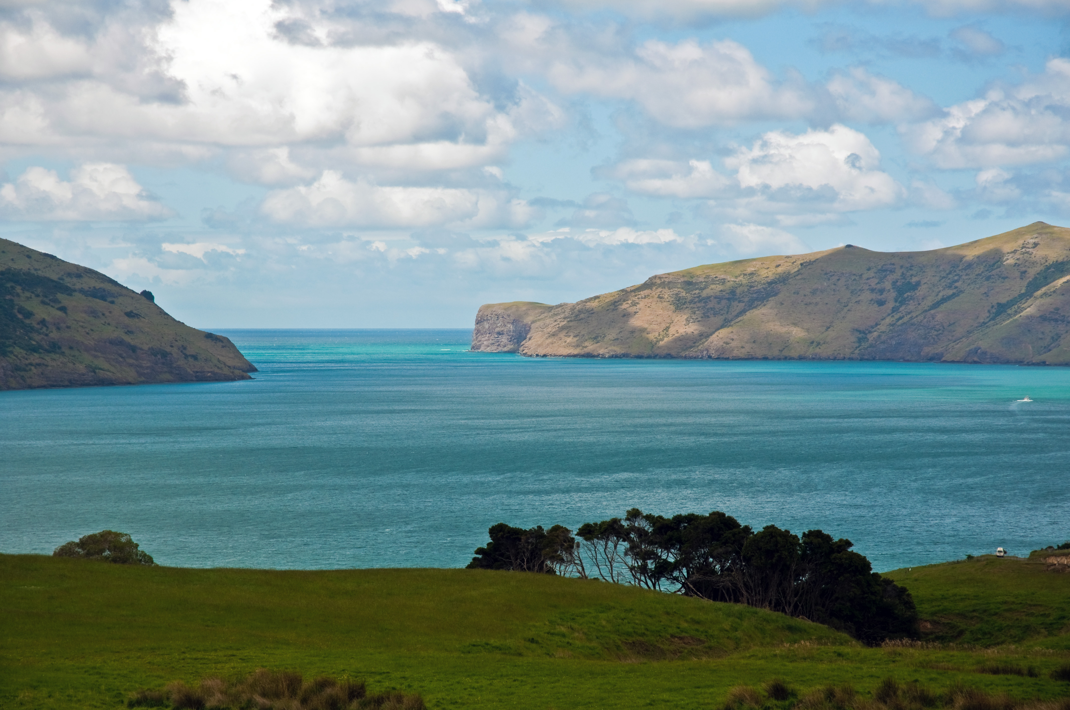 Akaroa Harbour entrance, Canterbury, New Zealand, 22nd. Nov. 2010